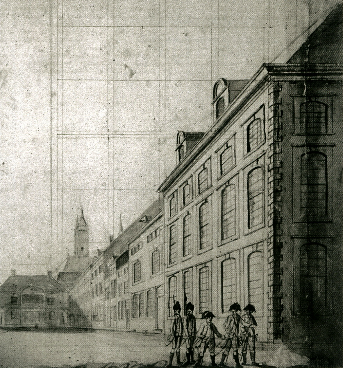 Drawing of the eastside of Vrijthof square in Maastricht, the town's main square. The first building to the right is the Groote Sociëteit, a gentlemen's club founded in 1760.